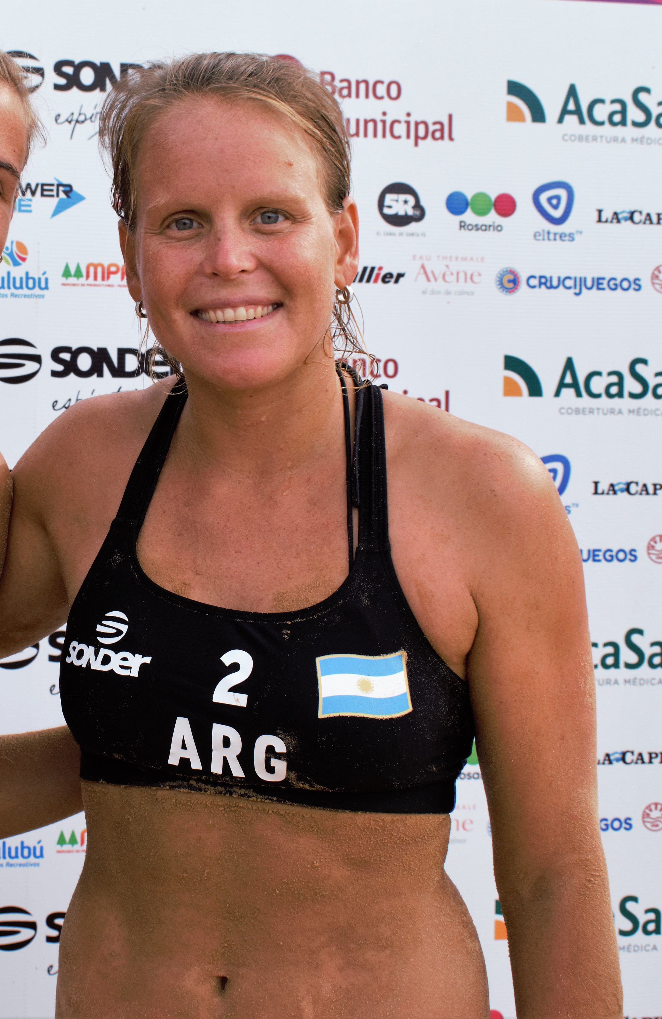 Brenda Churin alongisde Virginia Zonta during the 2019 South American Beach Games.